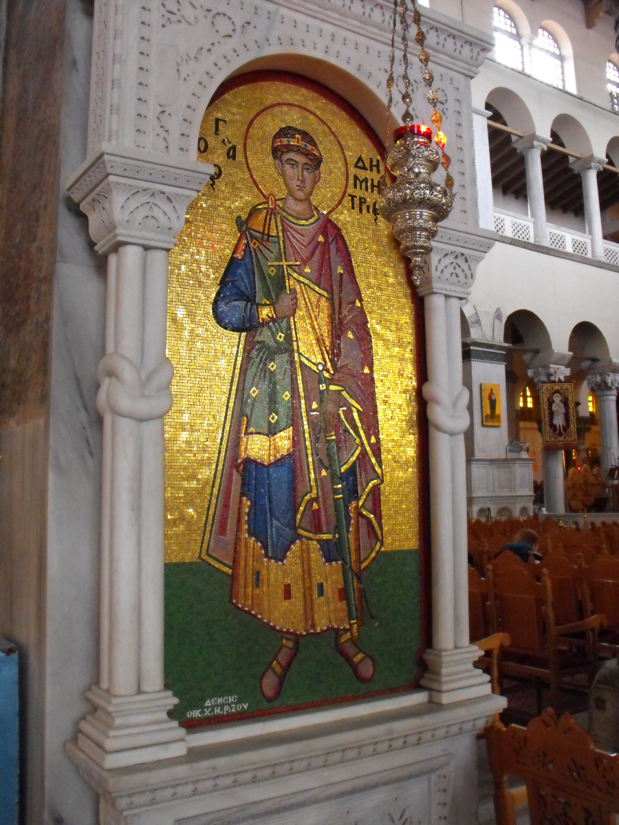 A mosaic icon of St. Demetrios in a marble kiot inside the church of St. Demetrios in the city of Thessaloniki, Greece.